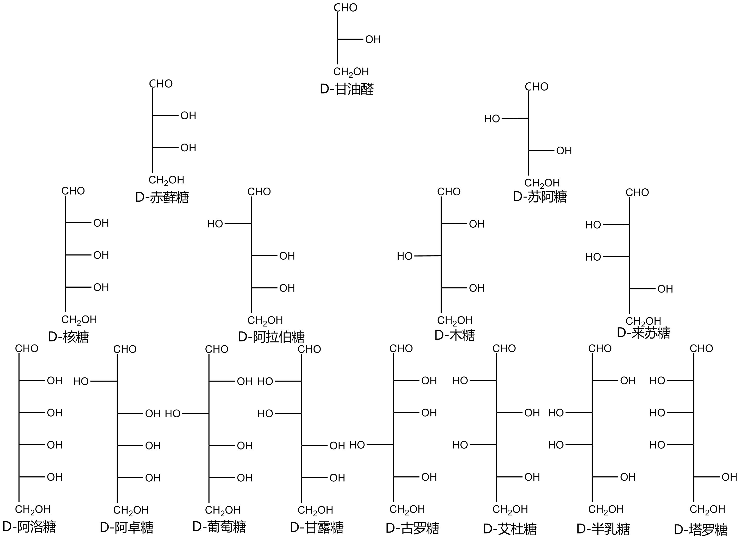 family tree of Aldoses